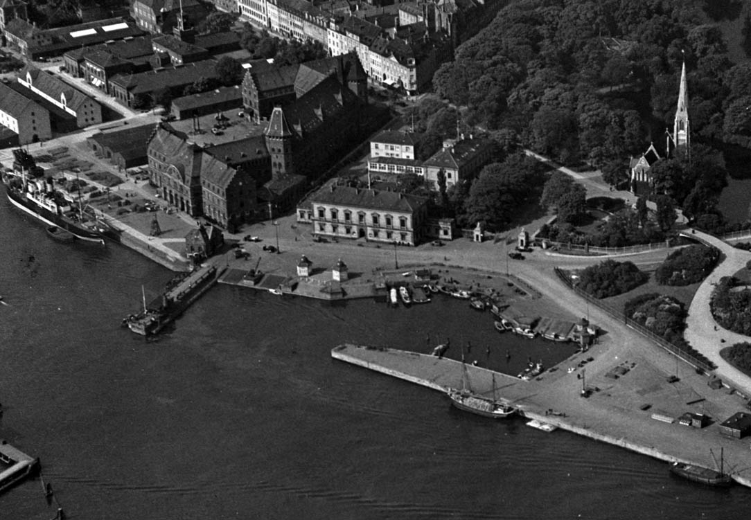 Aerial of Nordre Toldbod in Copenhagen, Denmark before the Port Authority Building was expanded with an extra floor in 1934.